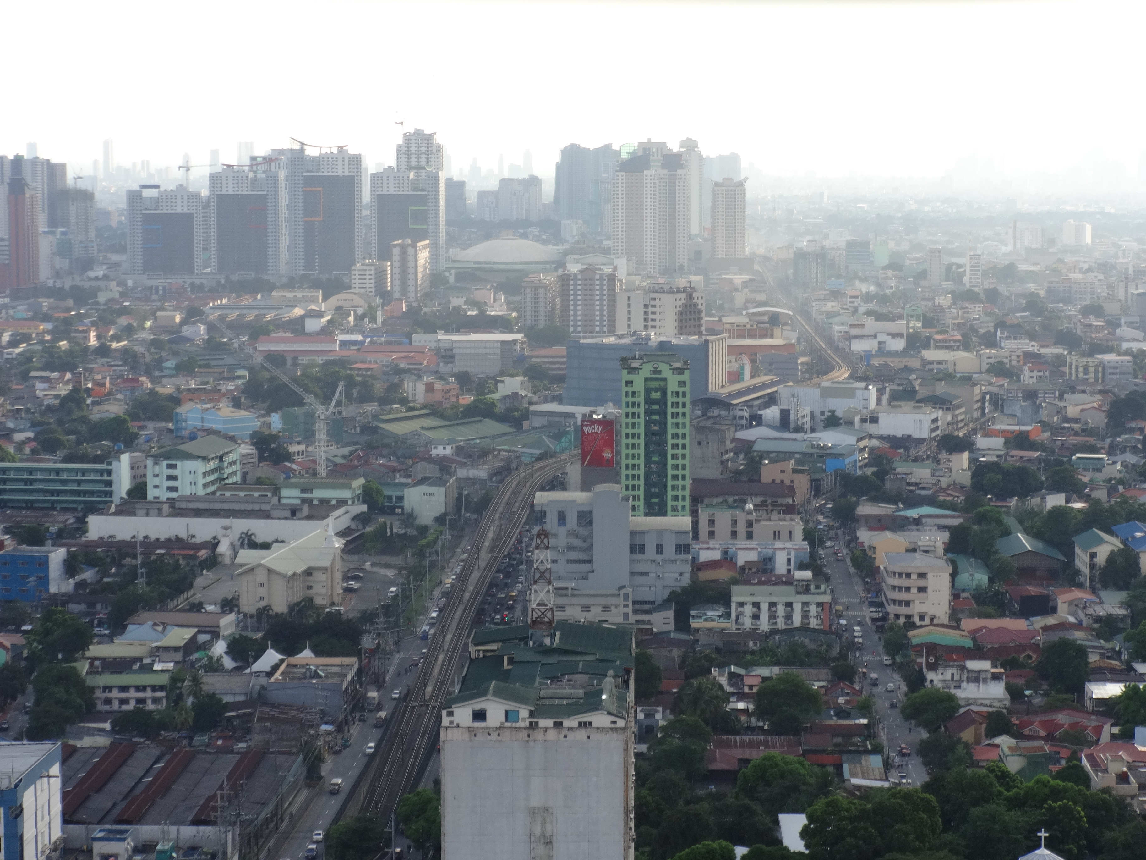 Aurora Boulevard in Loyola Heights, Quezon City. Visible on the photo is the Line 2 carriageway.